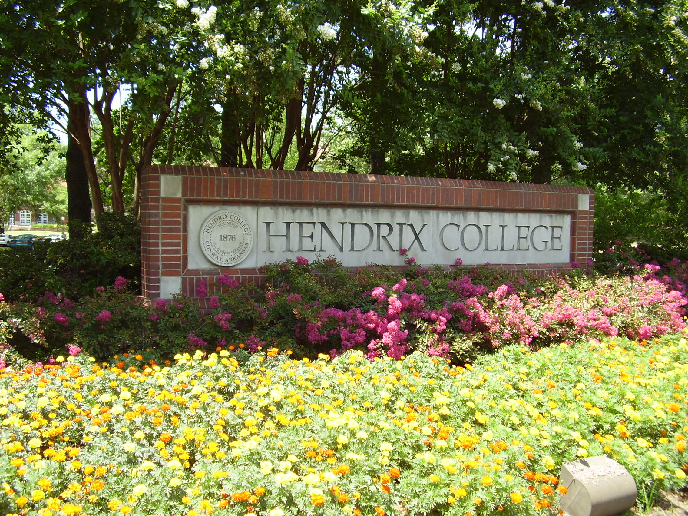 Taken by WhisperToMe